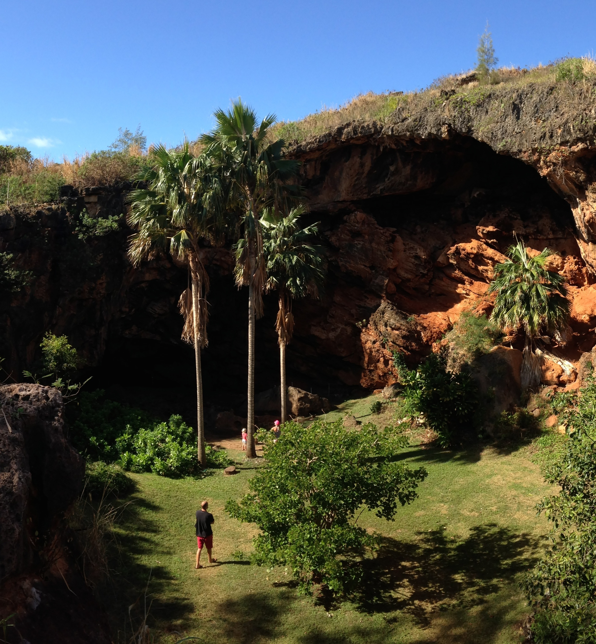 Makauwahi Cave, Kauai, Hawaiian Islands